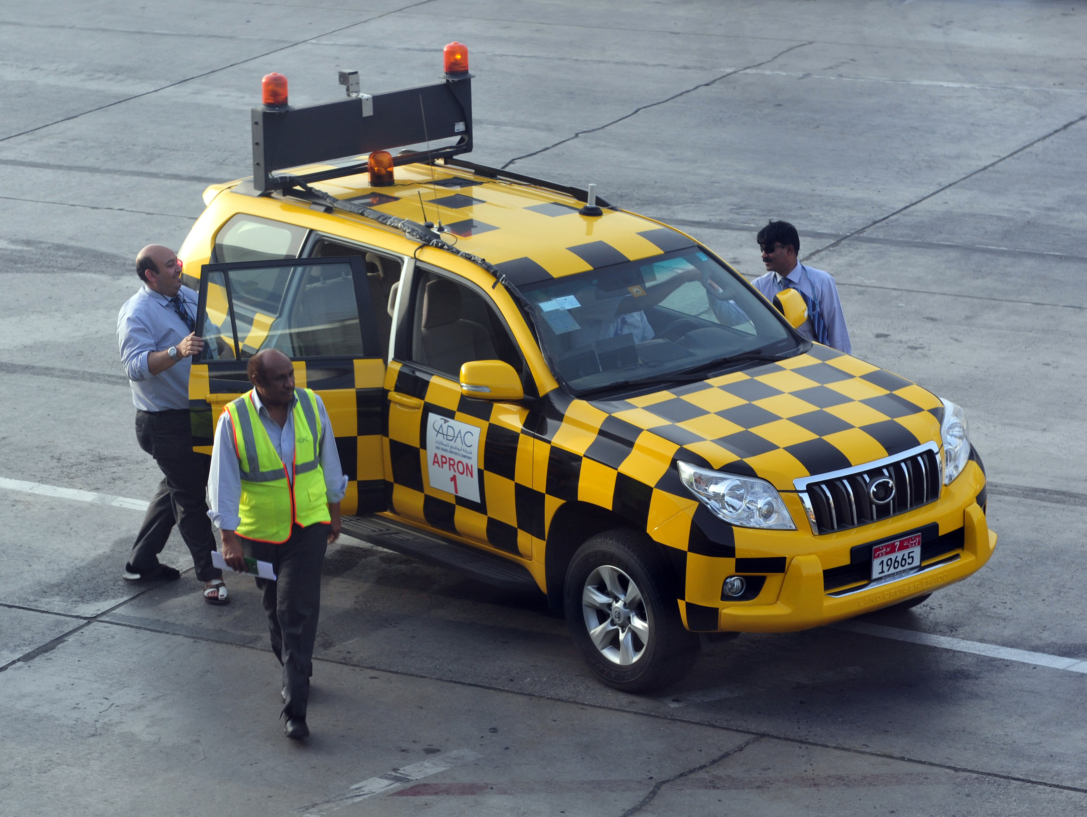 Toyota Land Cruiser Prado 150 at Abu Dhabi International Airport